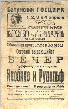 Yakobino & Rudollf, placard